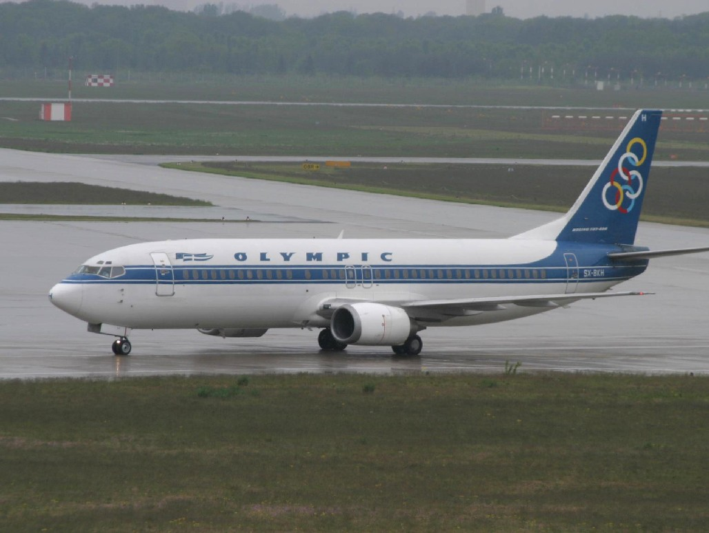 Olympic Airlines B737-400 Airplane.